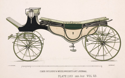 Print. One of a series of designs for various types of horse-drawn transport by J & C Cooper published in the Coachbuilders and Wheelwrights' Art Journal.